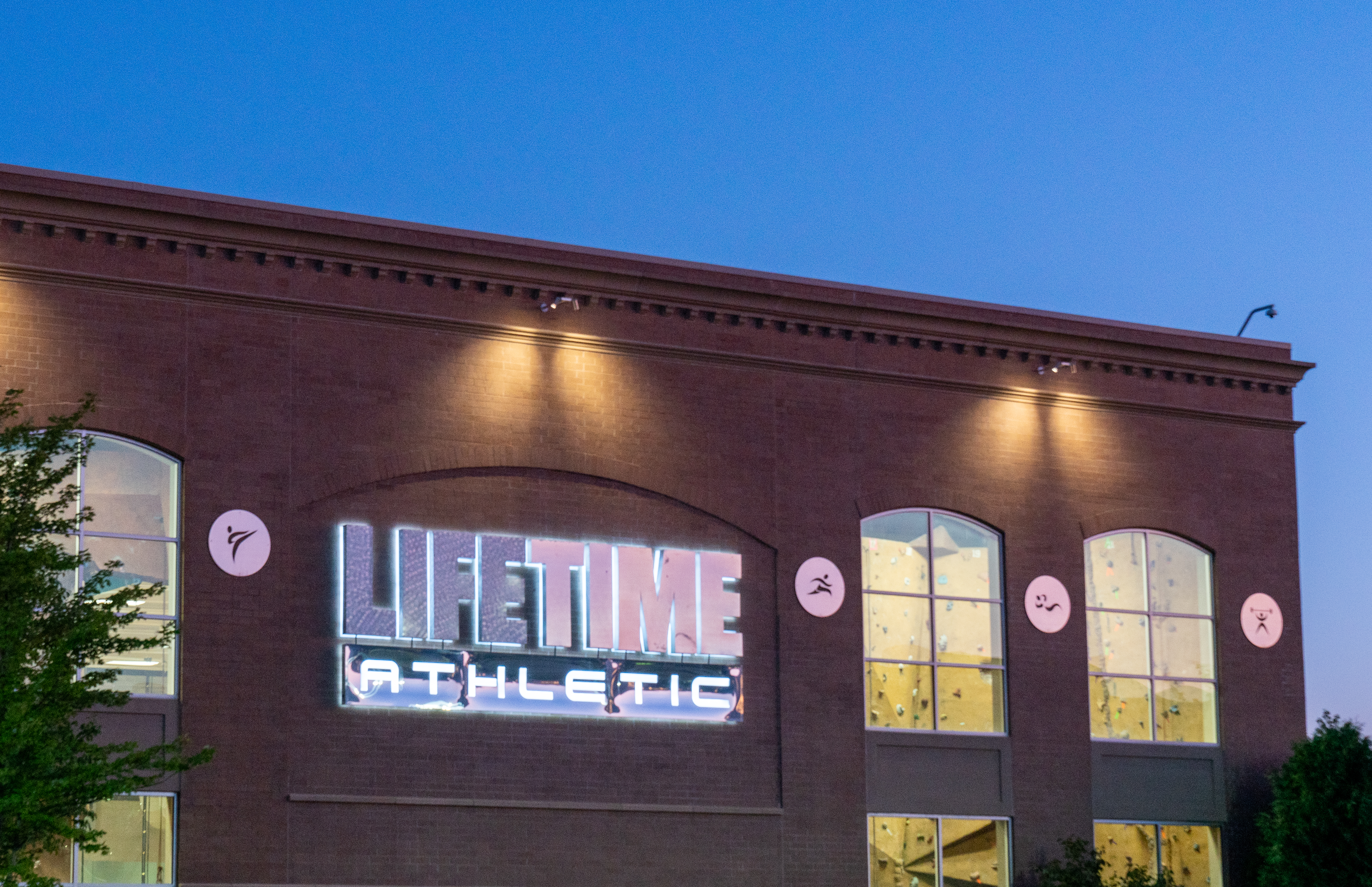 The Life Time Athletic fitness center gym at 2901 Corporate Place in Chanhassen, Minnesota.